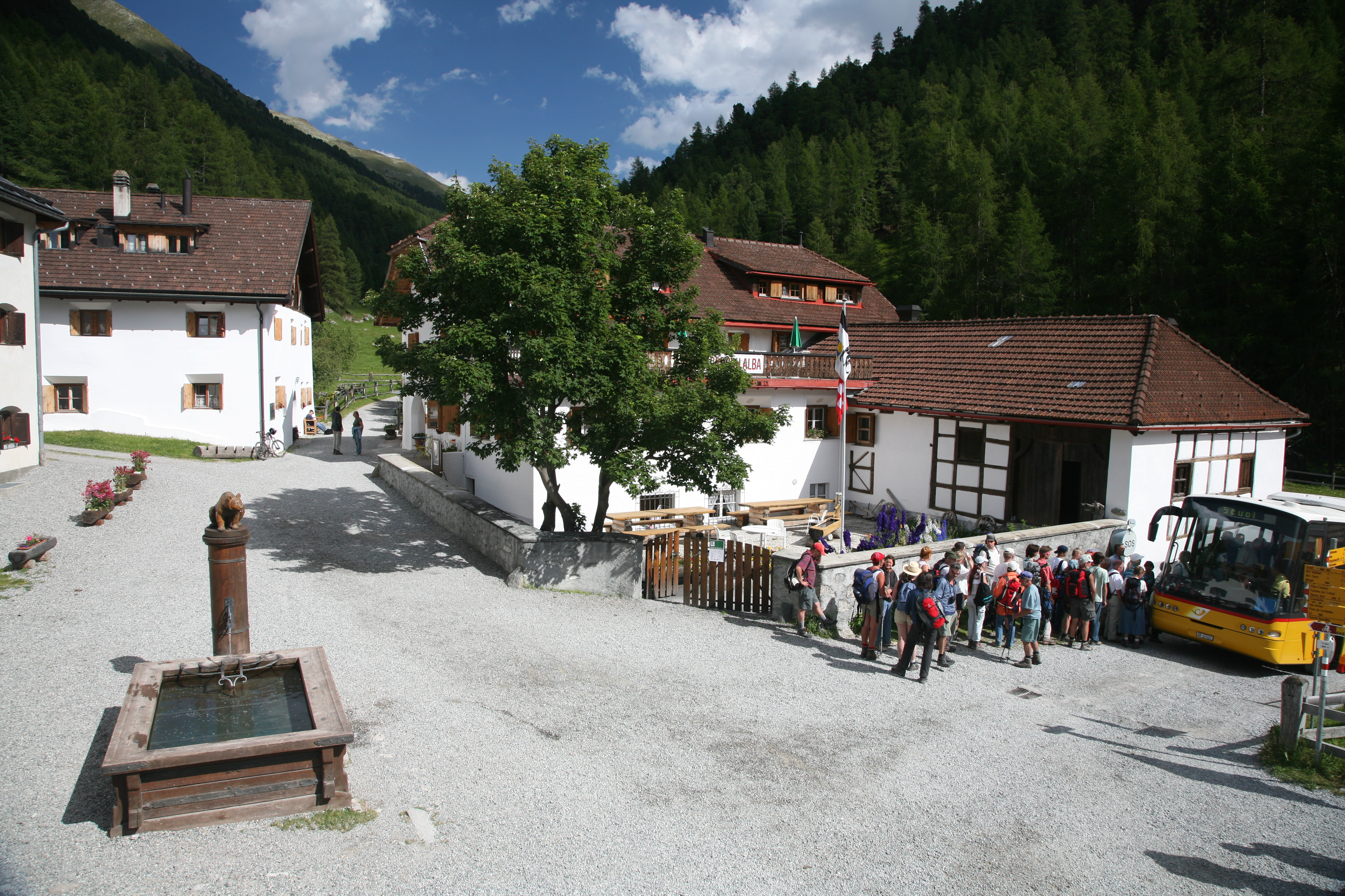 S'Charl in Lower Engadin, Switzerland